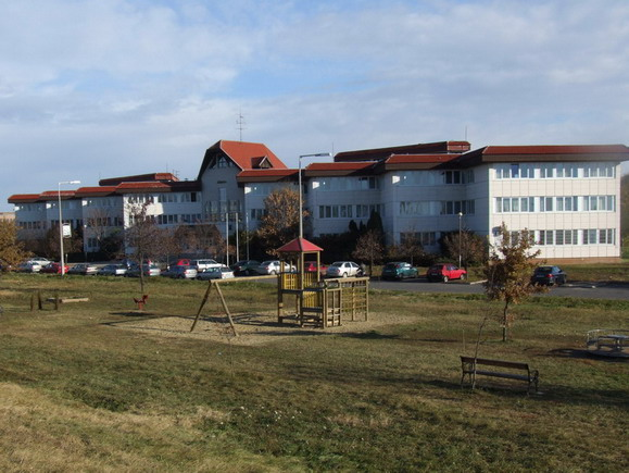 The collage "Tessedik Sámuel Főiskola" in Békéscsaba